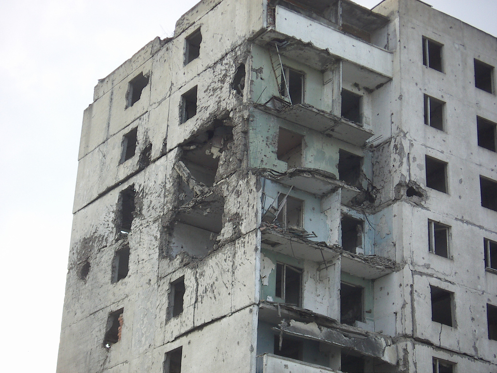 Part of a damaged flat building in Grozny, Chechnya, Russia